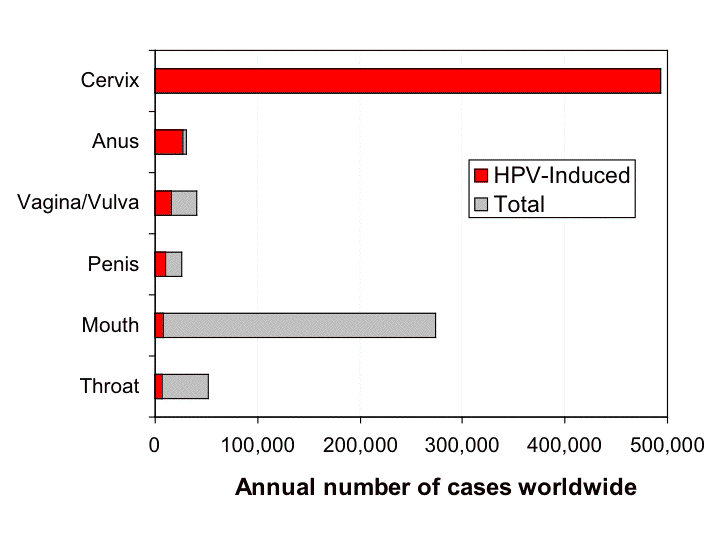 The graph shows the annual number of cases of various cancers worldwide. The fraction of cancers estimated to be induced by HPV is shown in red. For example, nearly all cases of cervical cancer are believed to be caused by HPV. Parkin, D. M. (2006)